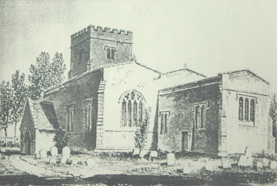 Photograph of drawing of St Mary the Virgin parish church, Steeple Barton, viewed from the southeast, before the church was rebuilt in 1850–51